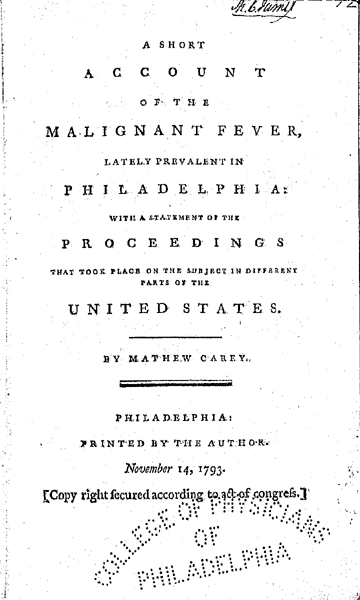 Carey, M. Short Account of the Malignant Fever (14 Nov. 1793). Title Page.